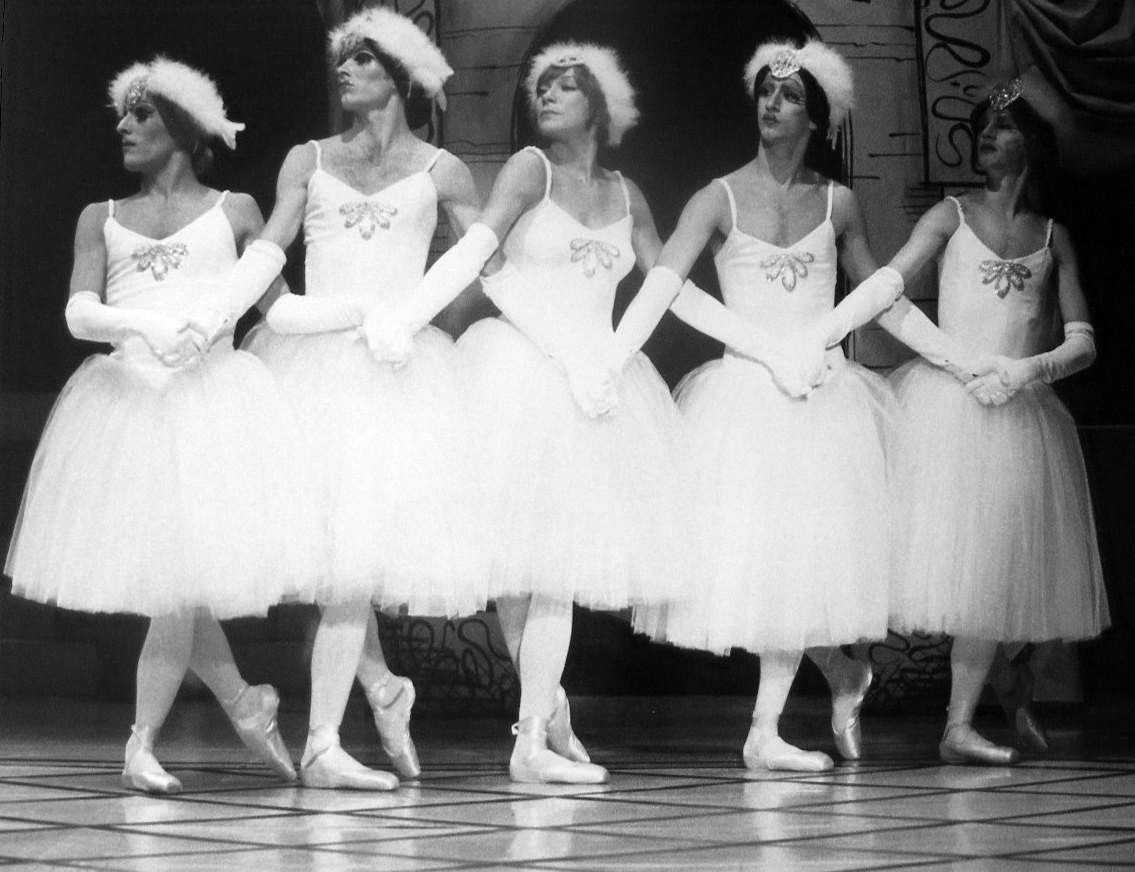 Photo of Shirley MacLaine (center) and Les Ballets Trockadero de Monte Carlo from her 1977 television special "Where Do We Go From Here?"